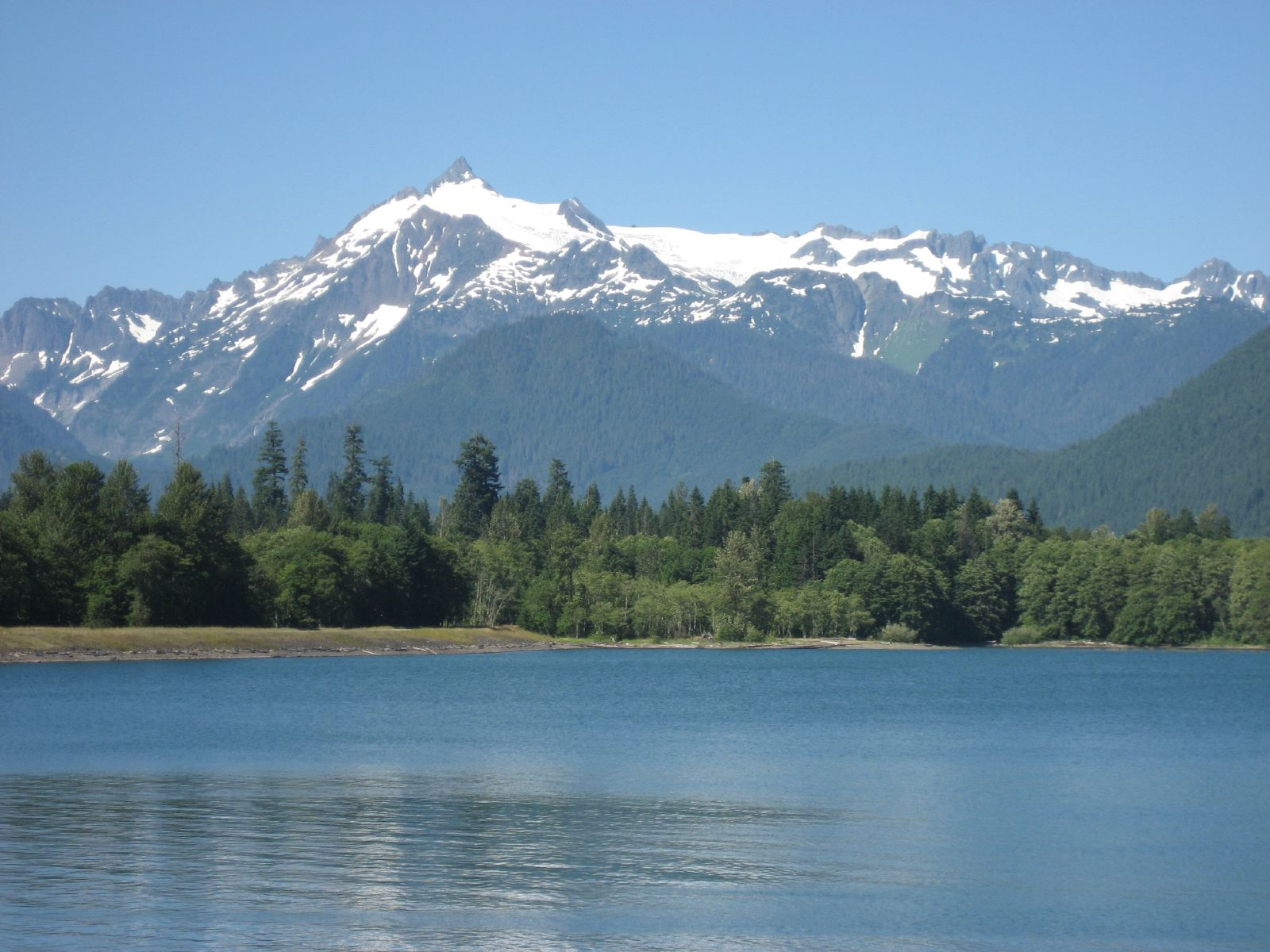 The view of the mountains over Baker Lake in Shasta County, California.